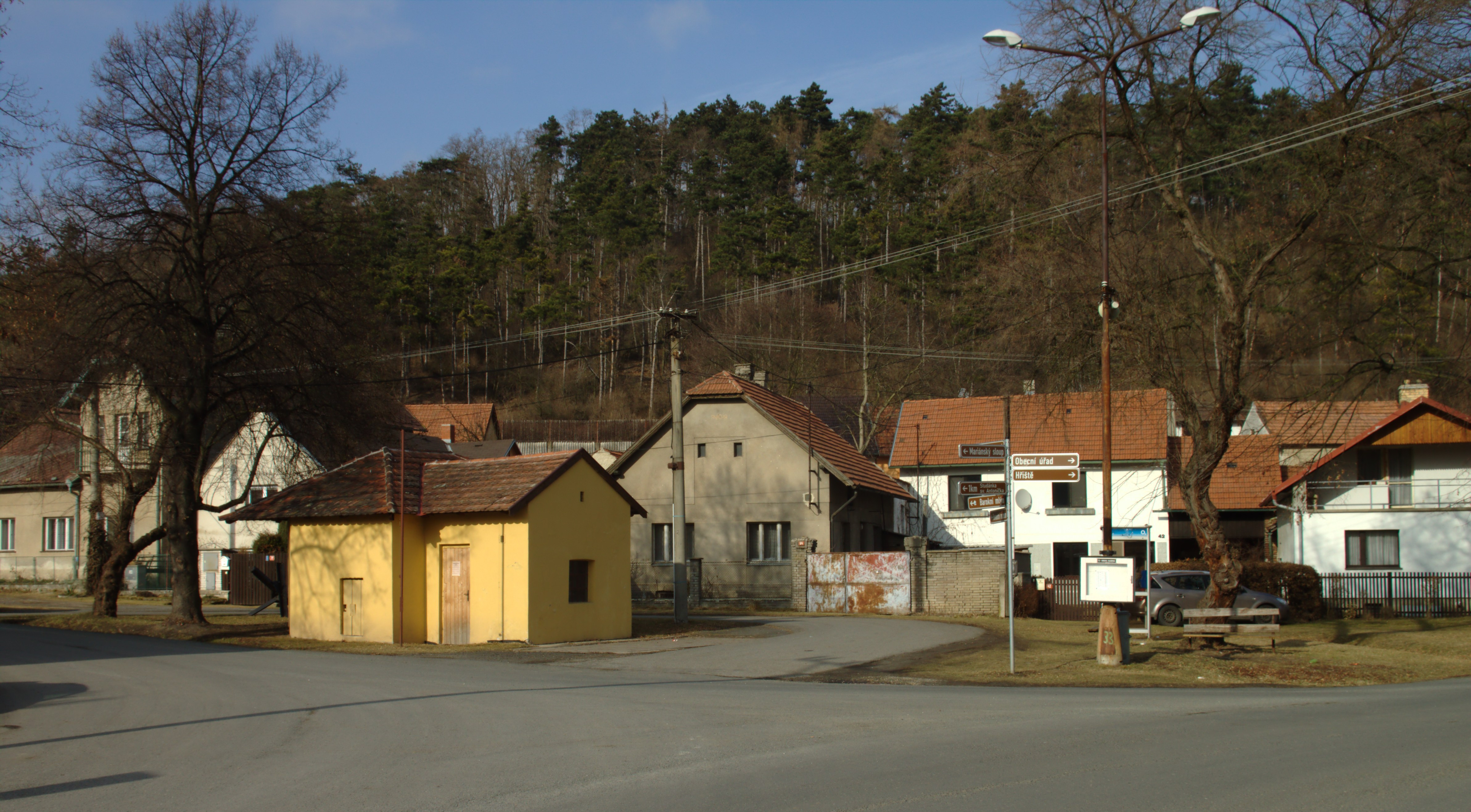 Sazená, a town in Kladno District, Central Bohemian Region, CZ